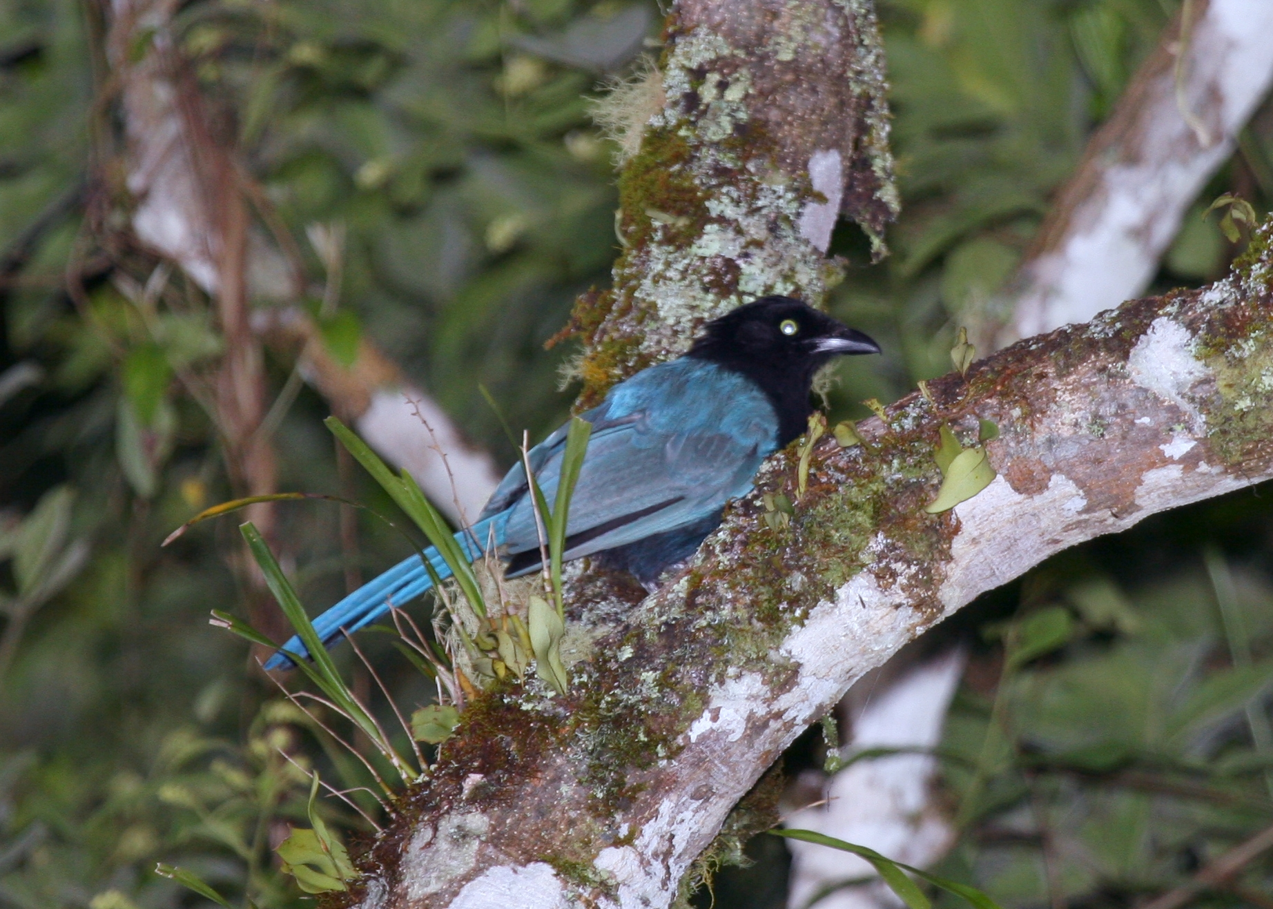 Bushy-crested Jay (Cyanocorax melanocyaneus) Dysmorodrepanis 20:27, 29 May 2008 (UTC)